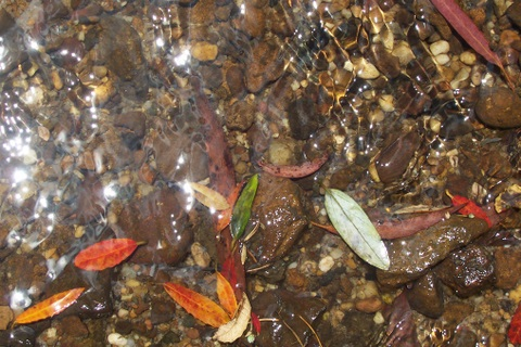 stream at Leura, NSW with leaves of Elaeocarpus holopetalus, Atherosperma moschatum & Eucalyptus oreades